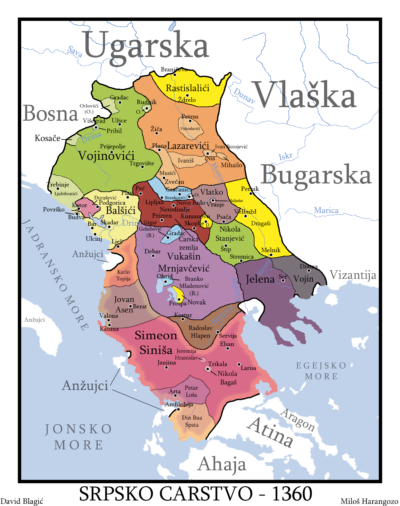 This map represents the territories of the important nobilities in the Serbian Empire in 1360, when the Serbian Empire started to fall. The lighter border represents the nobility who accepted Simeon Siniša as their emperor. Thanks to SerbianPaleontologist, I made this map.